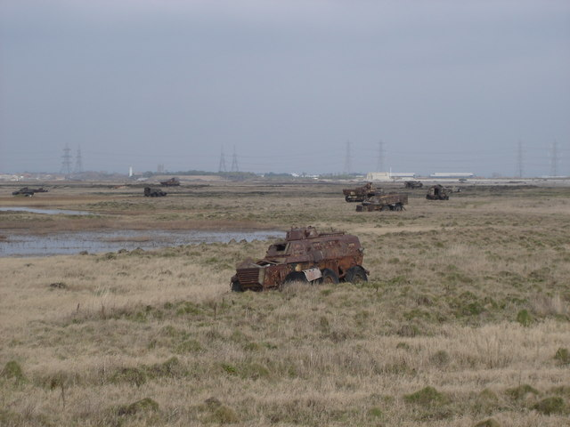 Rusty old armoured vehicles on Lydd firing range